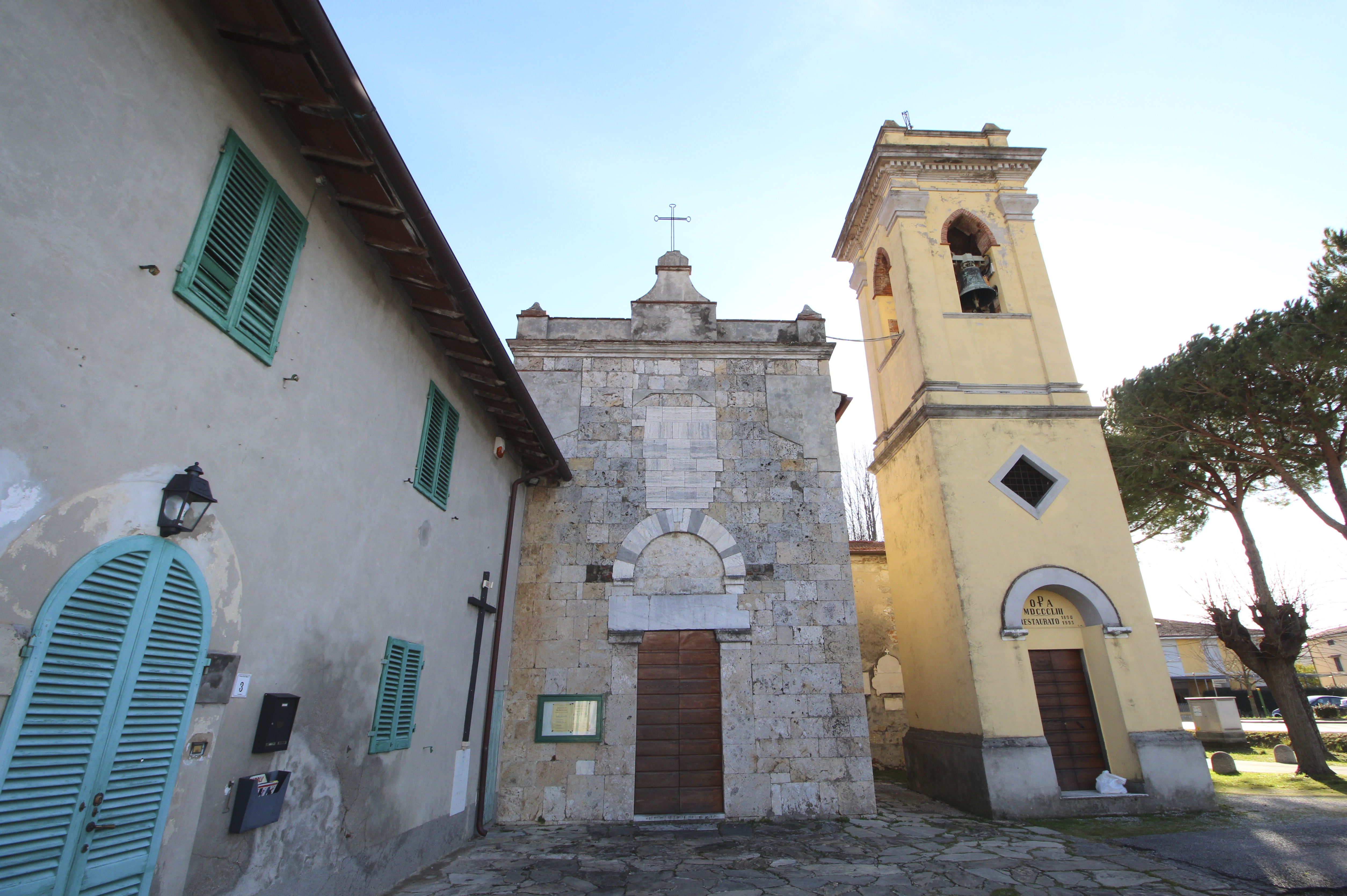 Church San Bartolomeo, Orzignano, hamlet of San Giuliano Terme, Province of Pisa, Tuscany, Italy